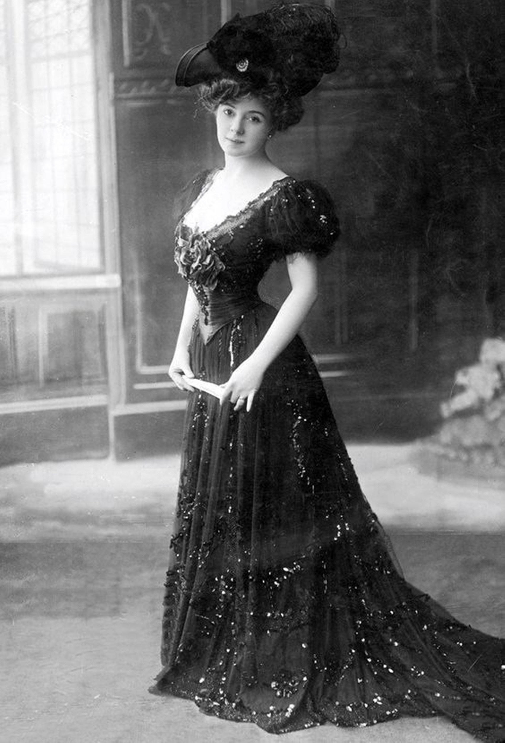 Amélie Diéterle is a French actress born in Strasbourg on February 20, 1871 and died in Cannes on January 20, 1941. She was legitimated in Paris in 1892 by Captain Louis Laurent, Knight of the Legion of Honor. Amélie Diéterle married in Vallauris on June 16th, 1930 with André Simon (1877-1965). Amélie Diéterle plays mainly at the Théâtre des Variétés in Paris during the Belle Époque.